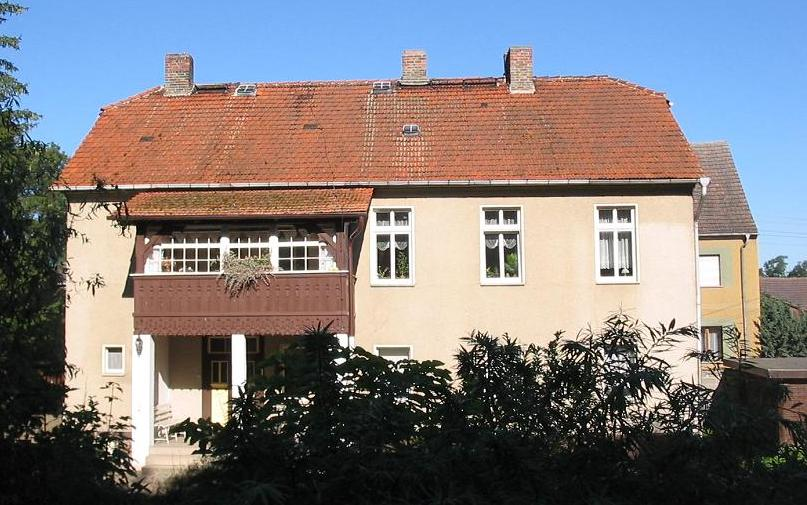 Building Dorfstraße (german for villagestreet ) No. 61 in Gömnigk. The village Gömnigk is a part of the town Brück in the district Potsdam Mittelmark, state Brandenburg, Germany, at the border to the natural preserve Naturpark Hoher Fläming.